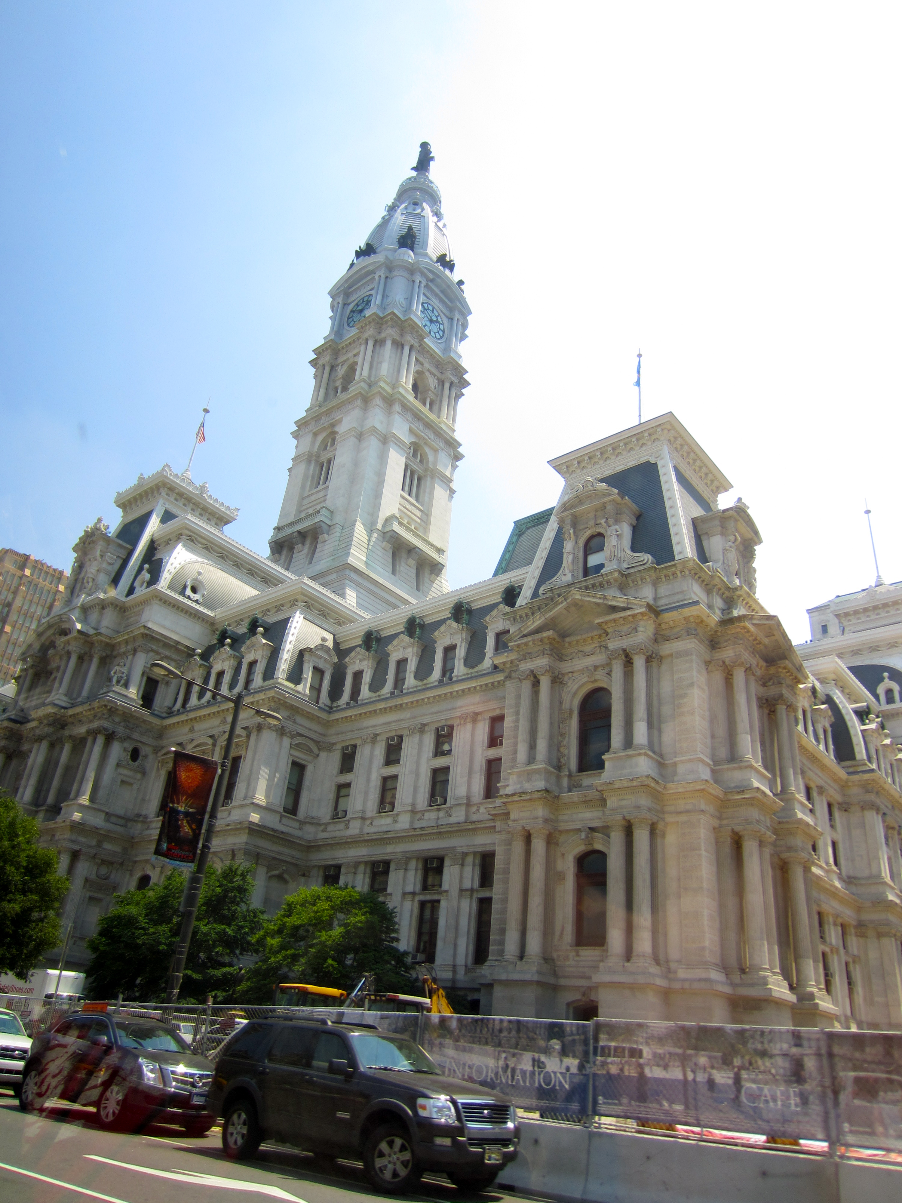 Philadelphia City Hall